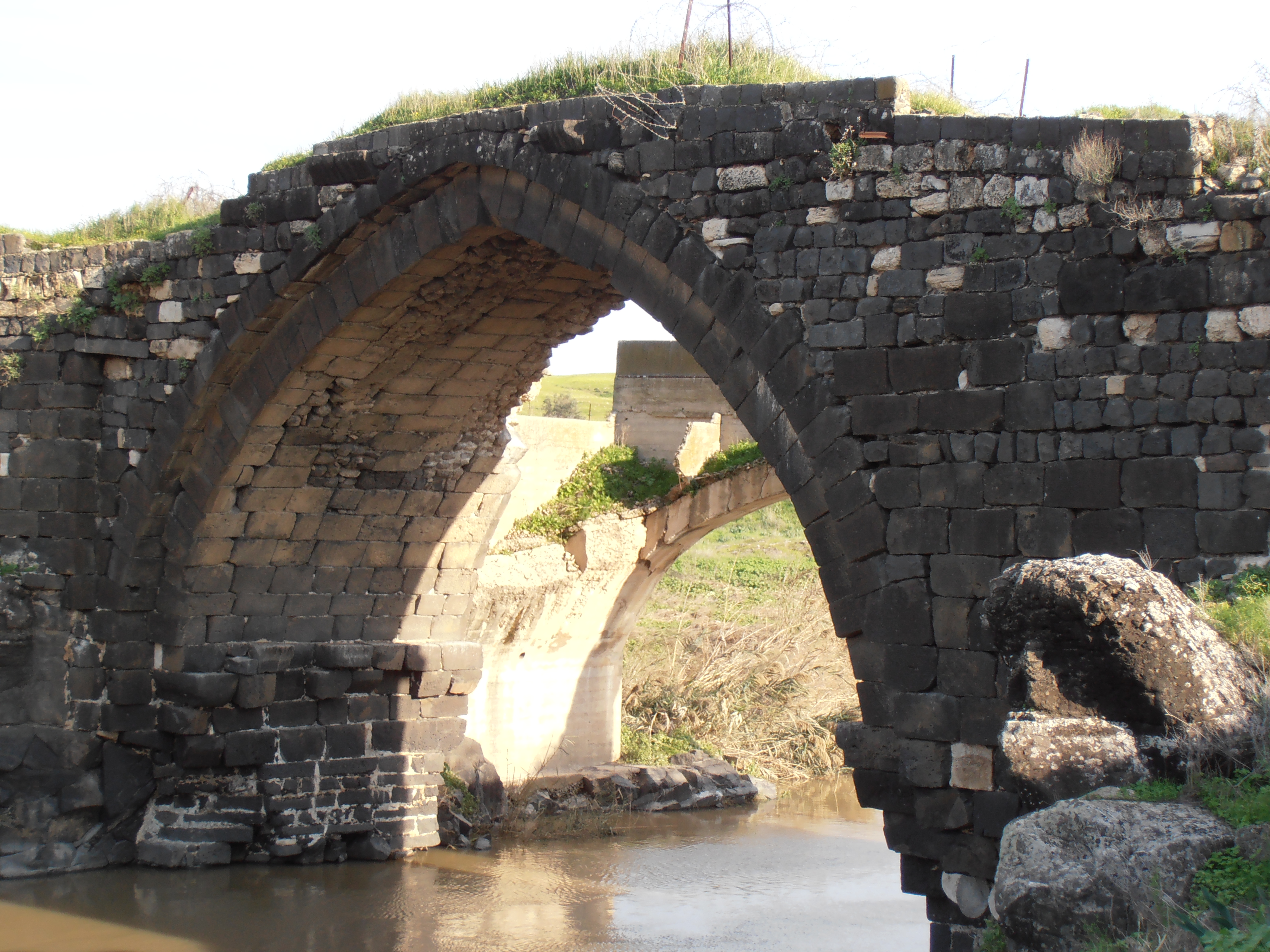 Geography of Israel